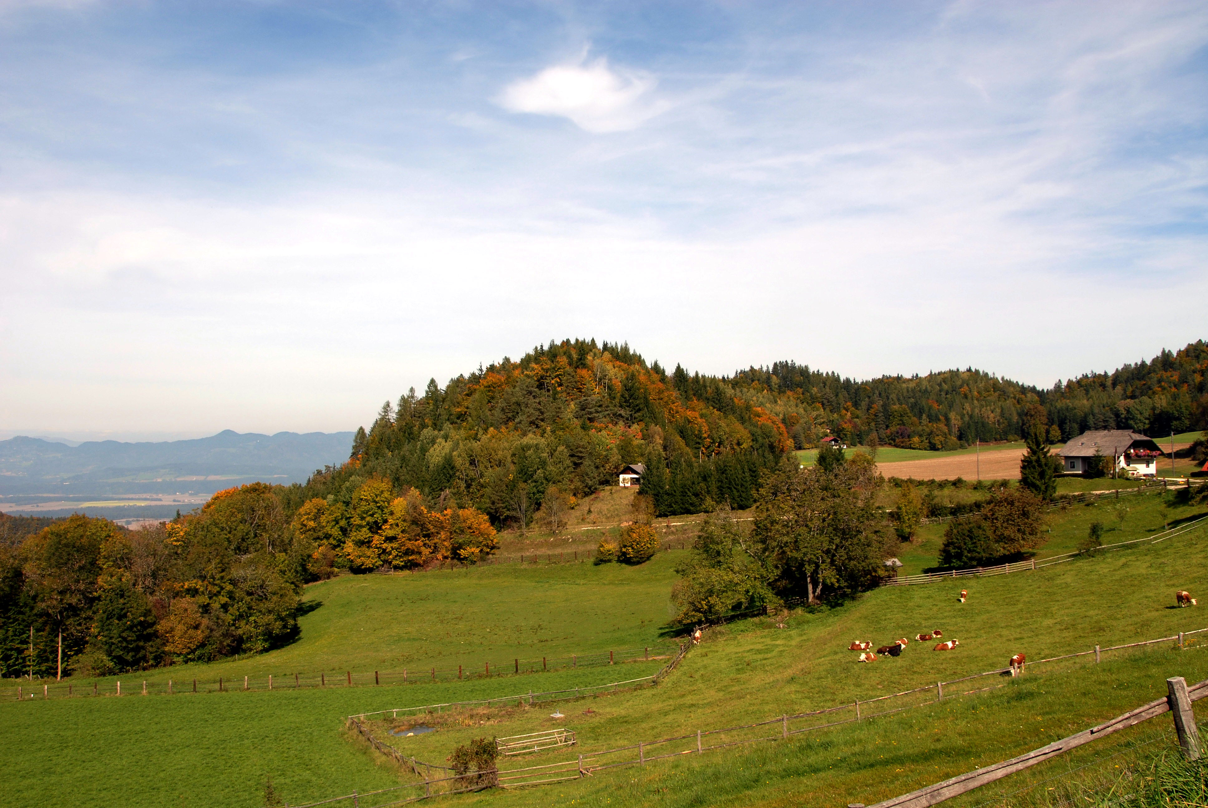 Landscape at Skarbin in the community Grafenstein, district Klagenfurt Land, Carinthia, Austria